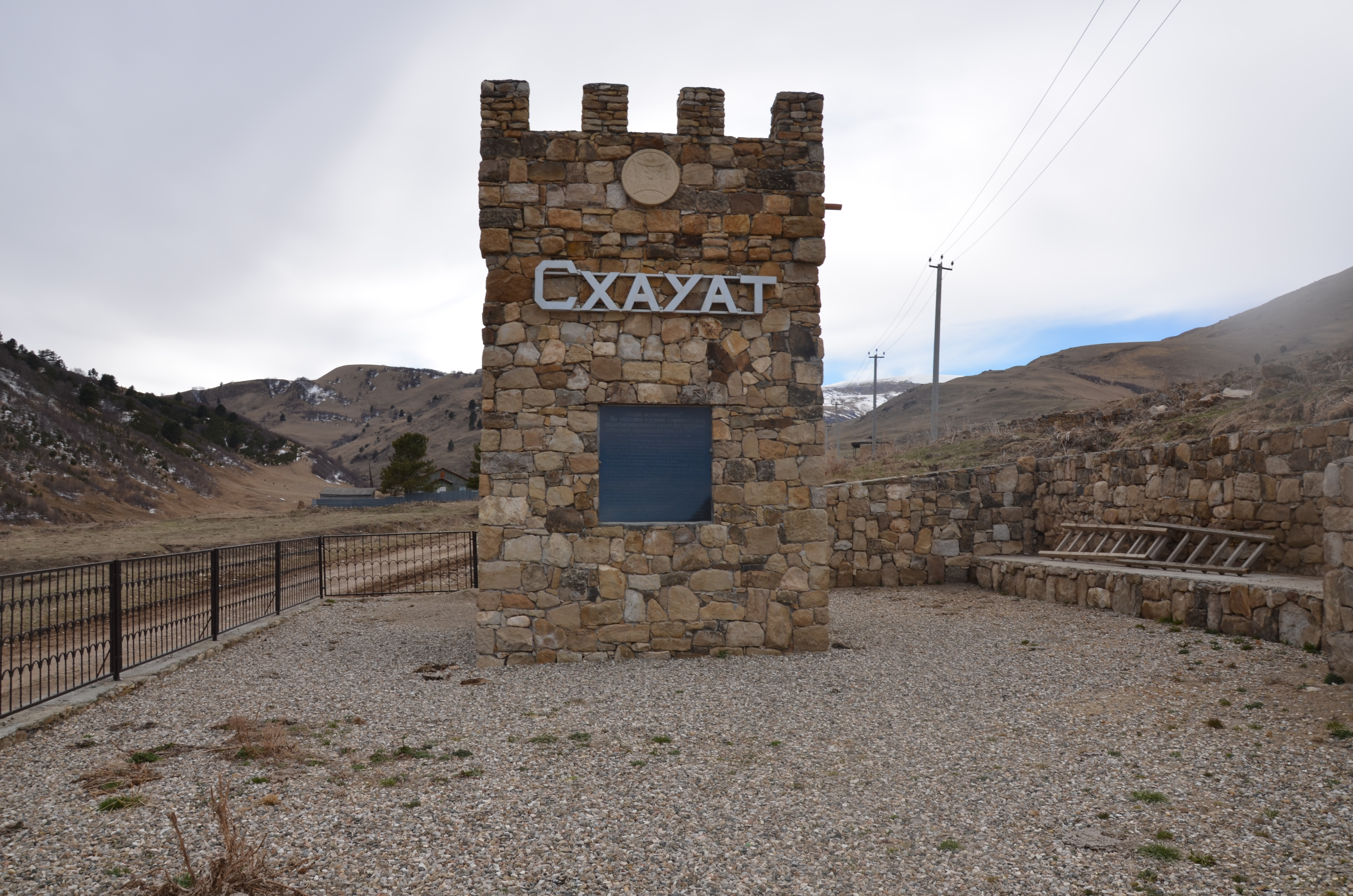 aul Khasaut`s Memorial tower